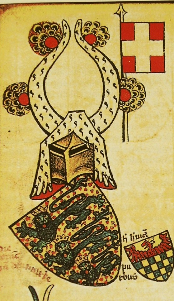 Danish arms En.wikipedia upload description: Page 55 verso in the Dutch book Wapenboek Gelre, written between 1340-1370 (some sources say 1378 or 1386), by Geldre Claes Heinen. Displaying the earliest known undisputed colourized image of the Dannebrog